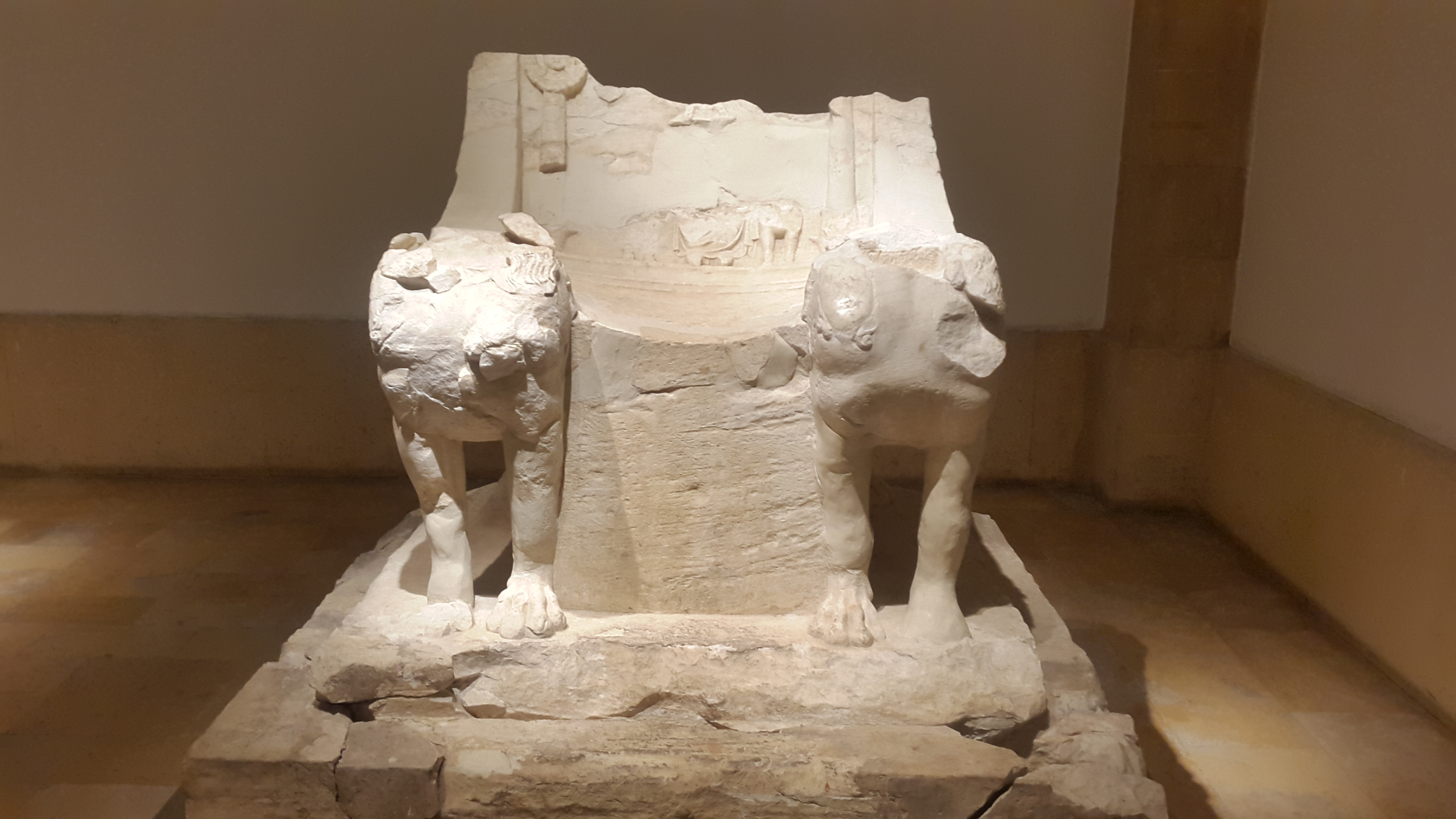 Marble Throne at Beirut National Museum